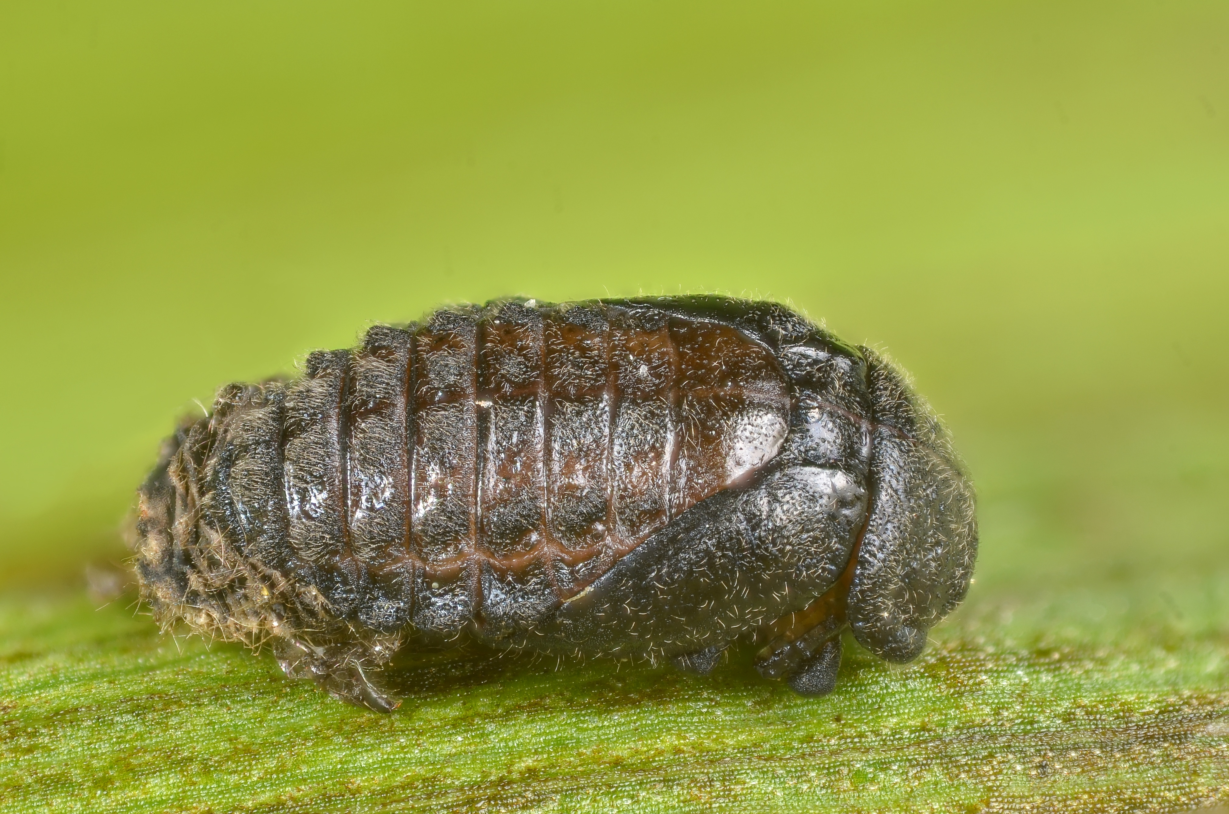 Coccidula rufa (ladybird) pupae Scale : pupae length ~4mm Technical settings : - Focus stack of 34 images - Schneider Kreuznach Componon 28 mm f/4 at f/4 reversed on extension tubes